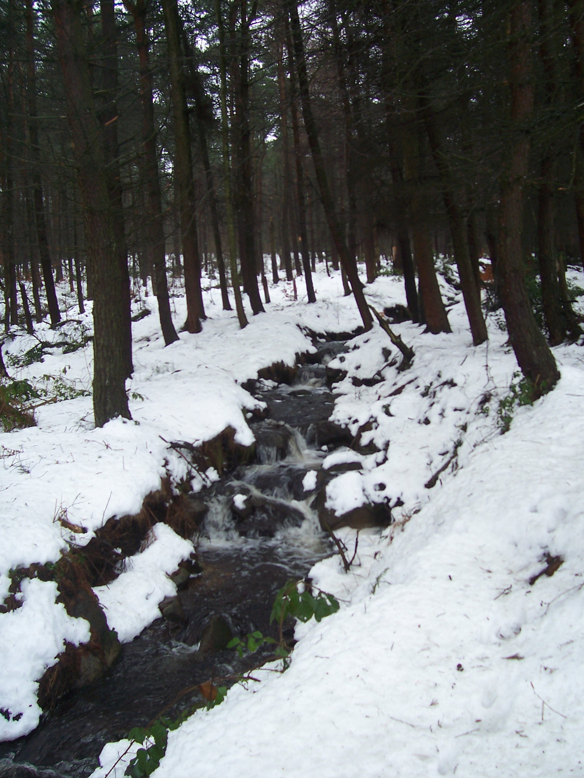 Limb Brook or Fenny Brook near Ringinglow, Sheffield